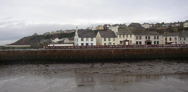 Maryport Harbour continued. This scene is to the left (west) of the Maryport harbour photo taken at the same time. Neat houses along the harbour-side. Houses at the edge of maryport's grid of streets climb up the cliff-top. The Senhouse Museum at the far left.